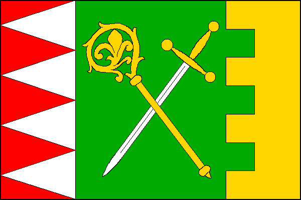 Municipal flag of Dřevčice village, Prague-East District, Czech Republic.